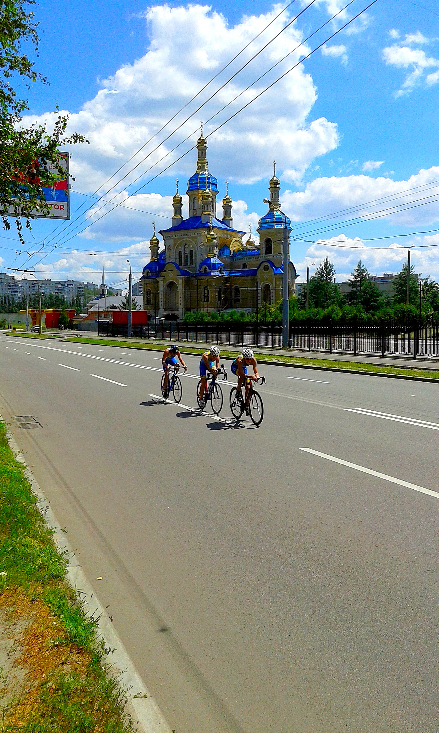 (79) BYCICLE COMPETITION AT BYCICLE DAY IN CITY OF KHARKIV STATE OF UKRAINE PHOTOGRAPH BY VIKTOR O LEDENYOV 20160709